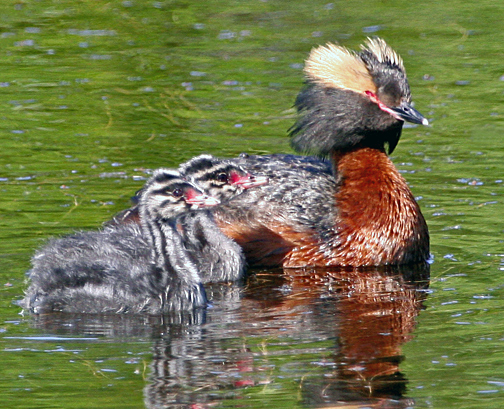 Horned Grebe (Podiceps auritus) with Young taken at Potter's Marsh, Anchorage Coastal Refuge, Alaska.